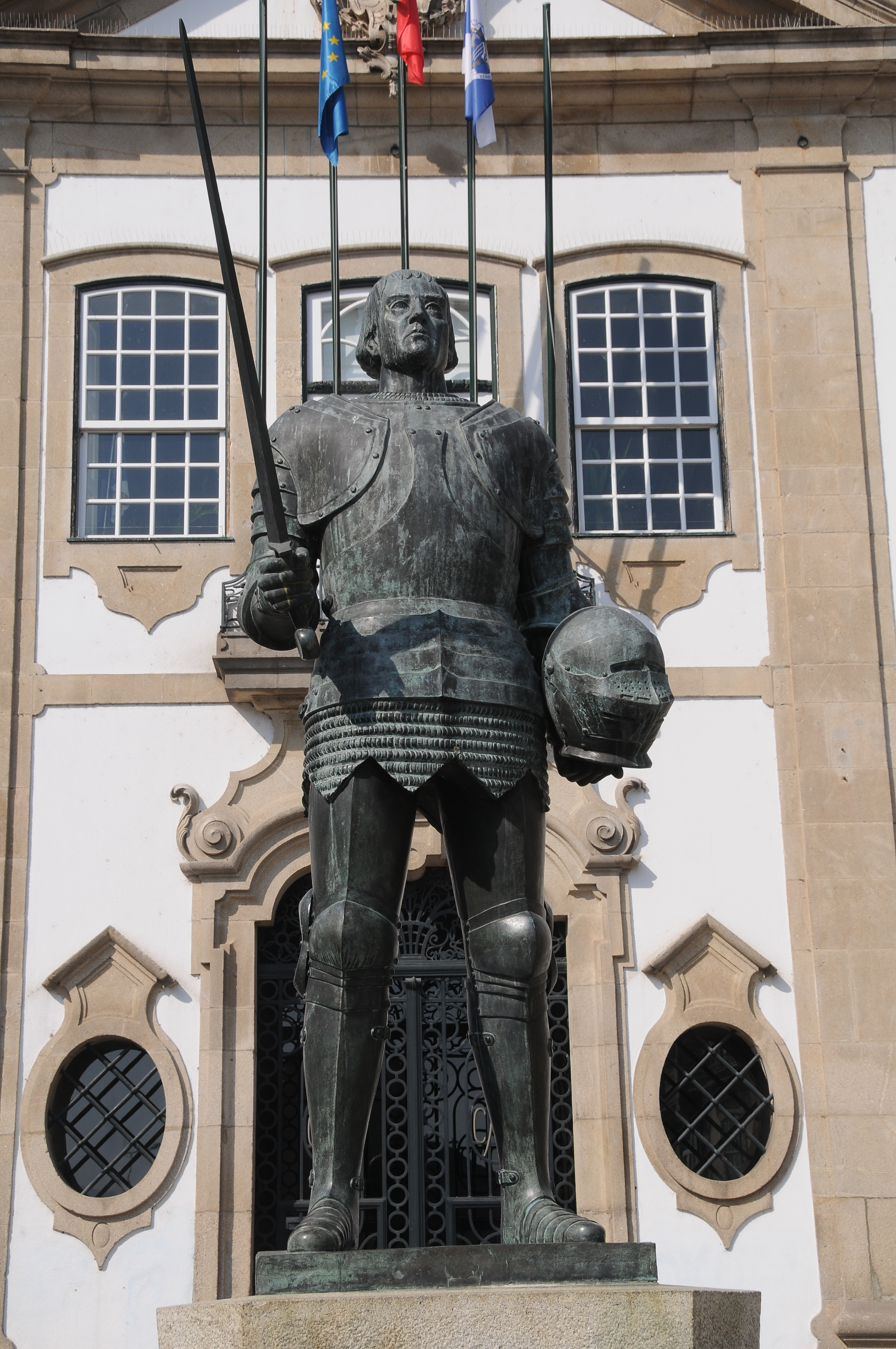 Statue of Dom Afonso 8 conde de Barcelos, Chaves, Portugal